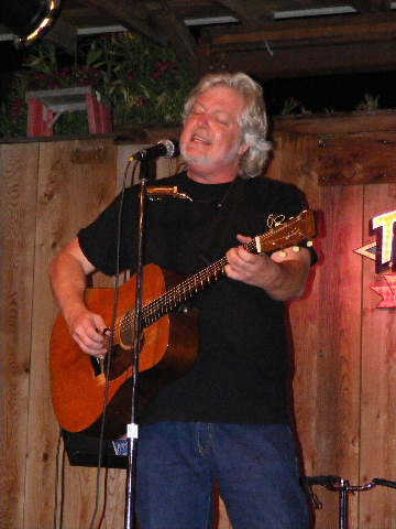 Willis Alan Ramsey at Threadgill's in Austin, TX (2008). Photo by Ron Baker.